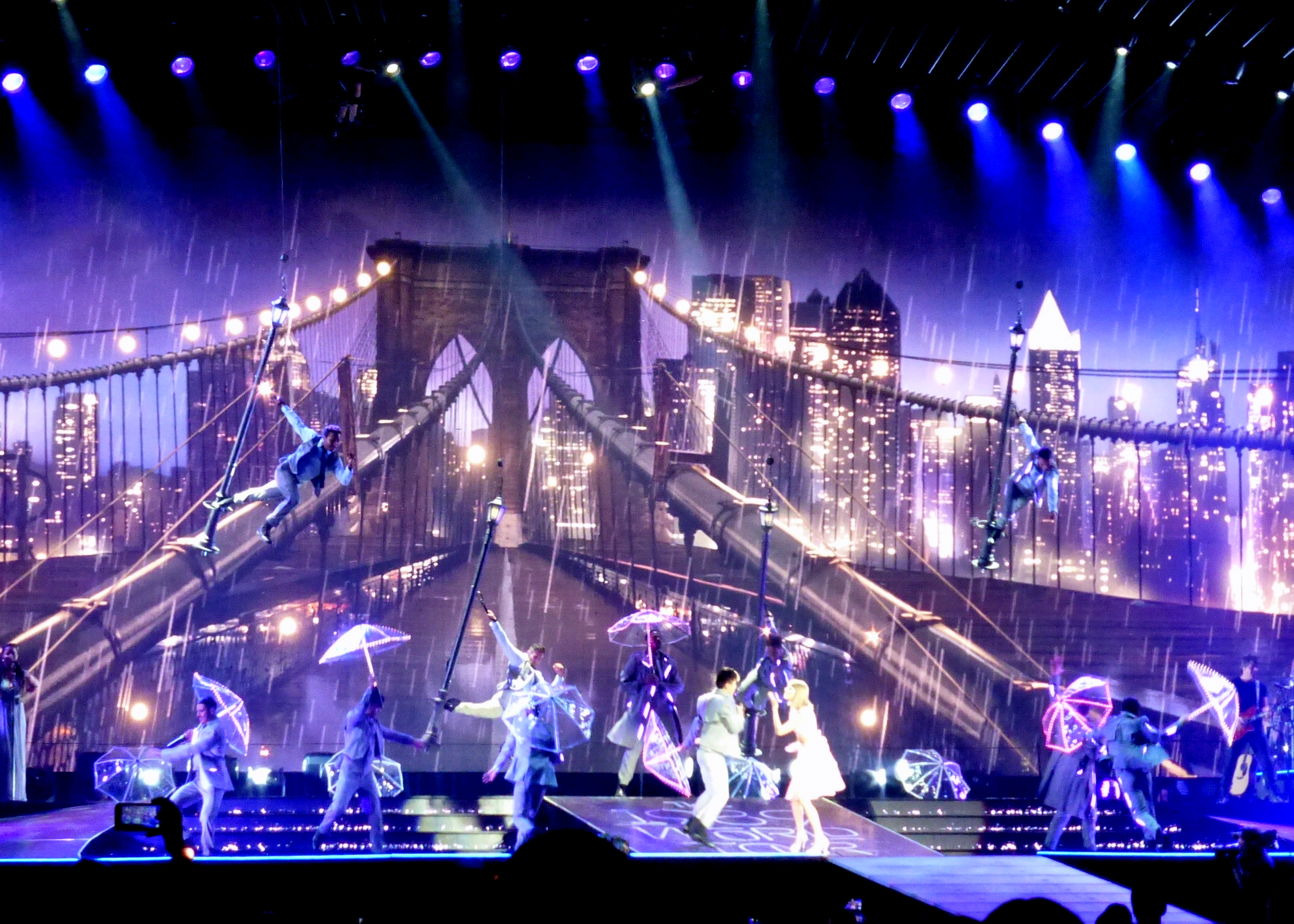 Taylor Swift 1989 Tour at Ford Field in Detroit, 5/30/15